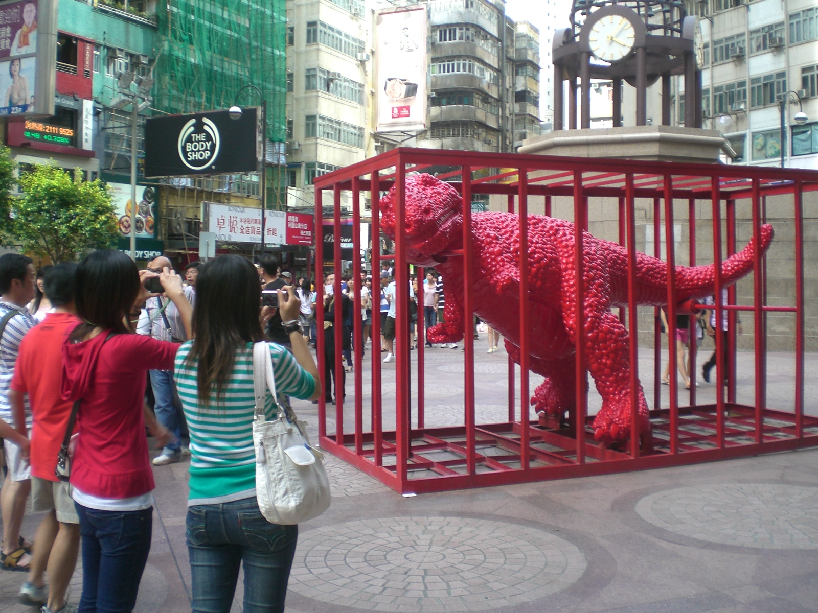 香港時代廣場當代藝術展覽2008年8月, Sui Jianguo 隋建國Art Exhibition in 2008